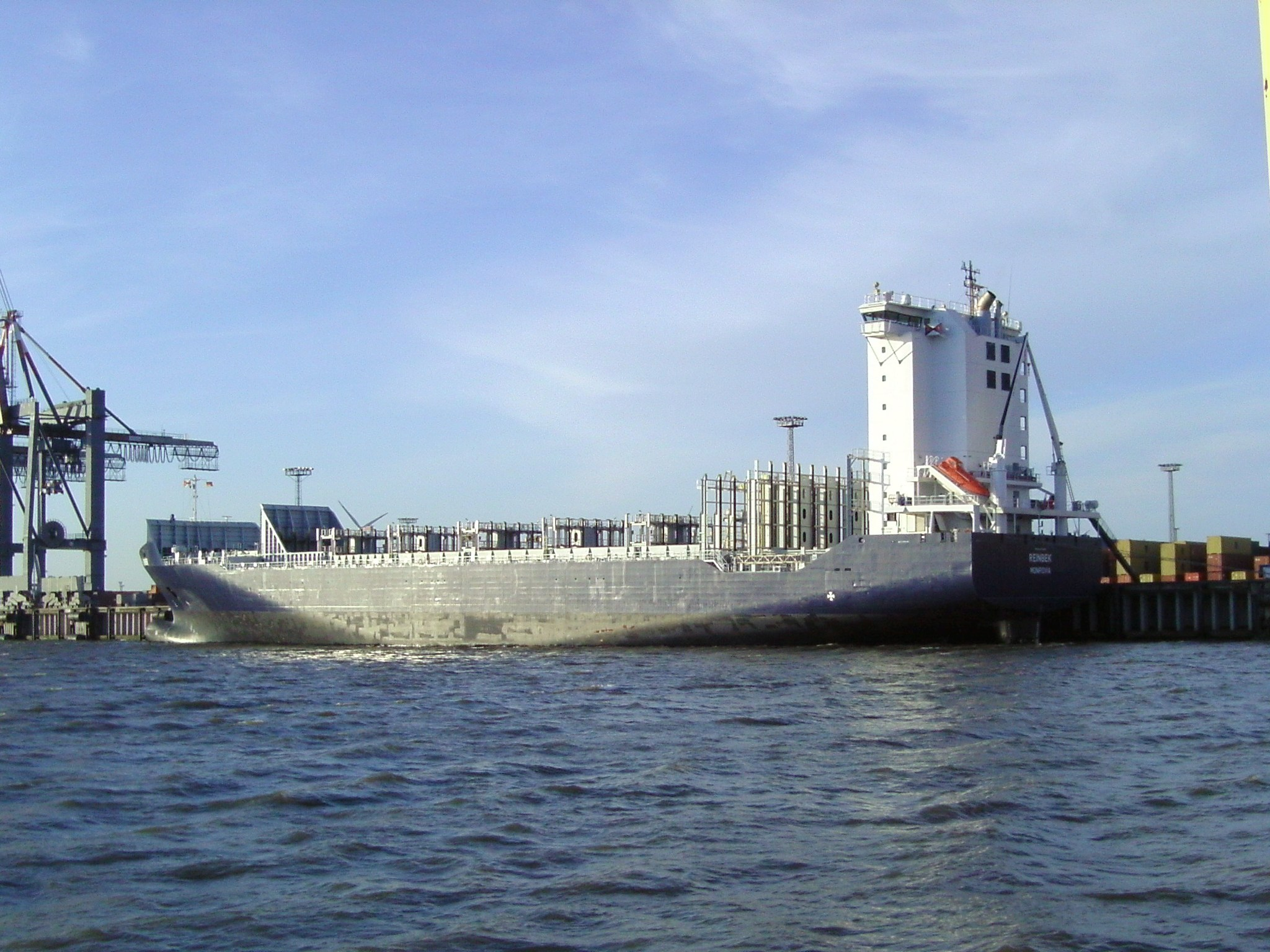 The feeder ship Reinbek at the container terminal of Bremerhaven (Germany)